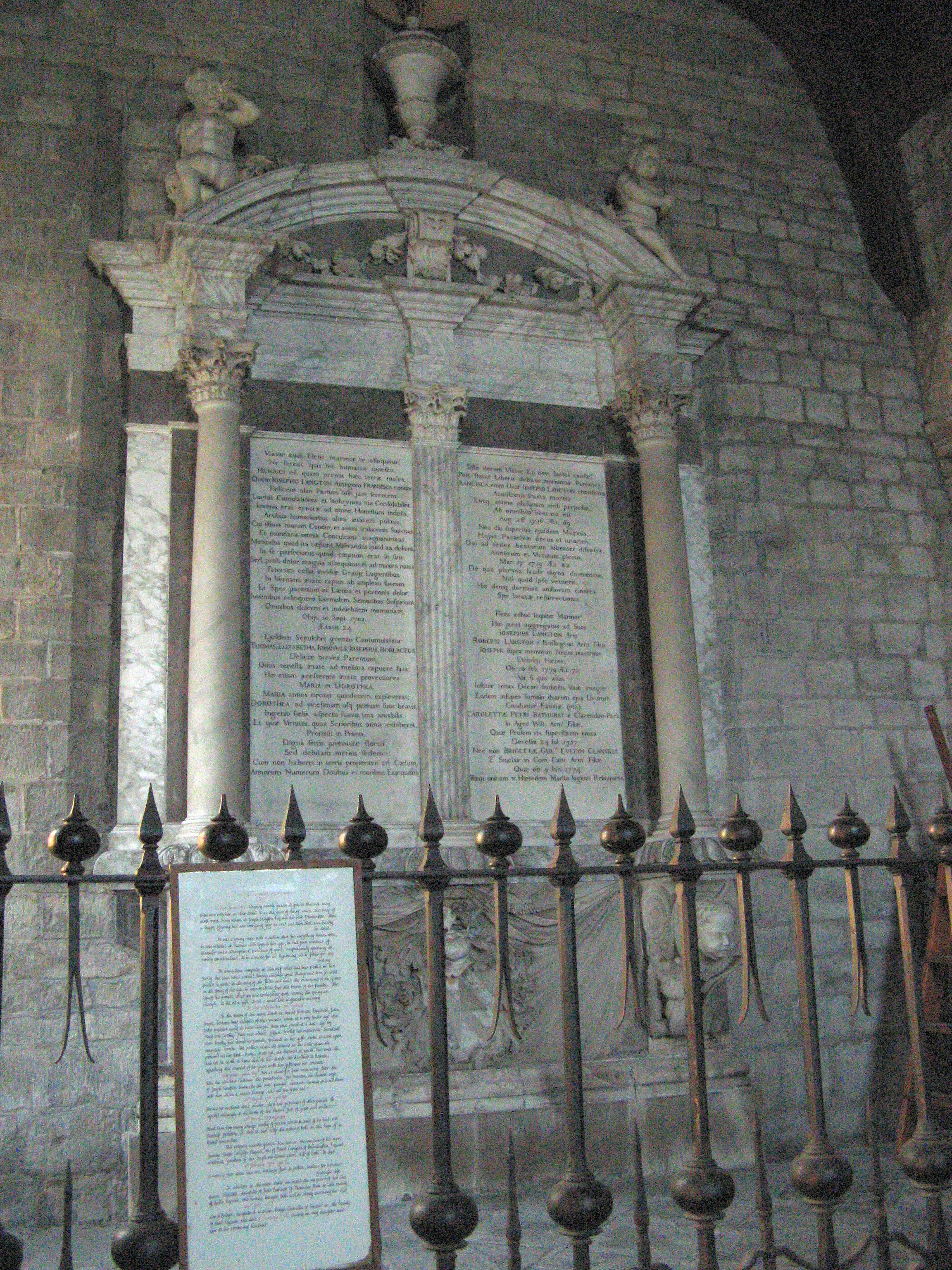 Tomb of Joseph Langton (died 1701) inside Holy Trinity Church, Newton St Loe, near Bath.